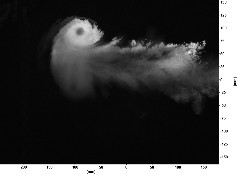 Picture of the airflow from an air vortex cannon. Taken by firing a smoke-filled Airzooka along a laser sheet. Picture taken during independent study at Rose-Hulman Institute of Technology